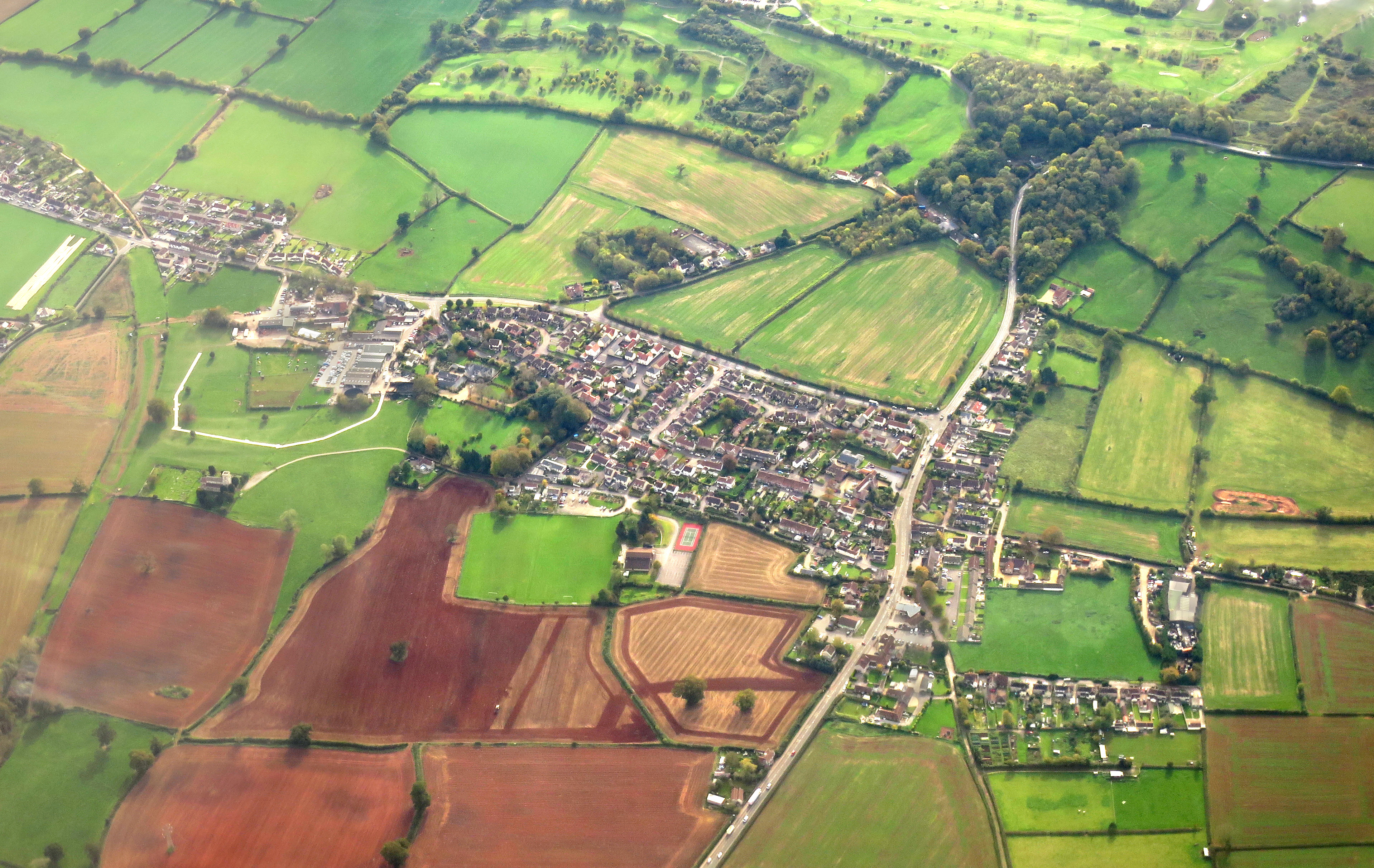 An aerial view of the village of Farrington Gurney in England.